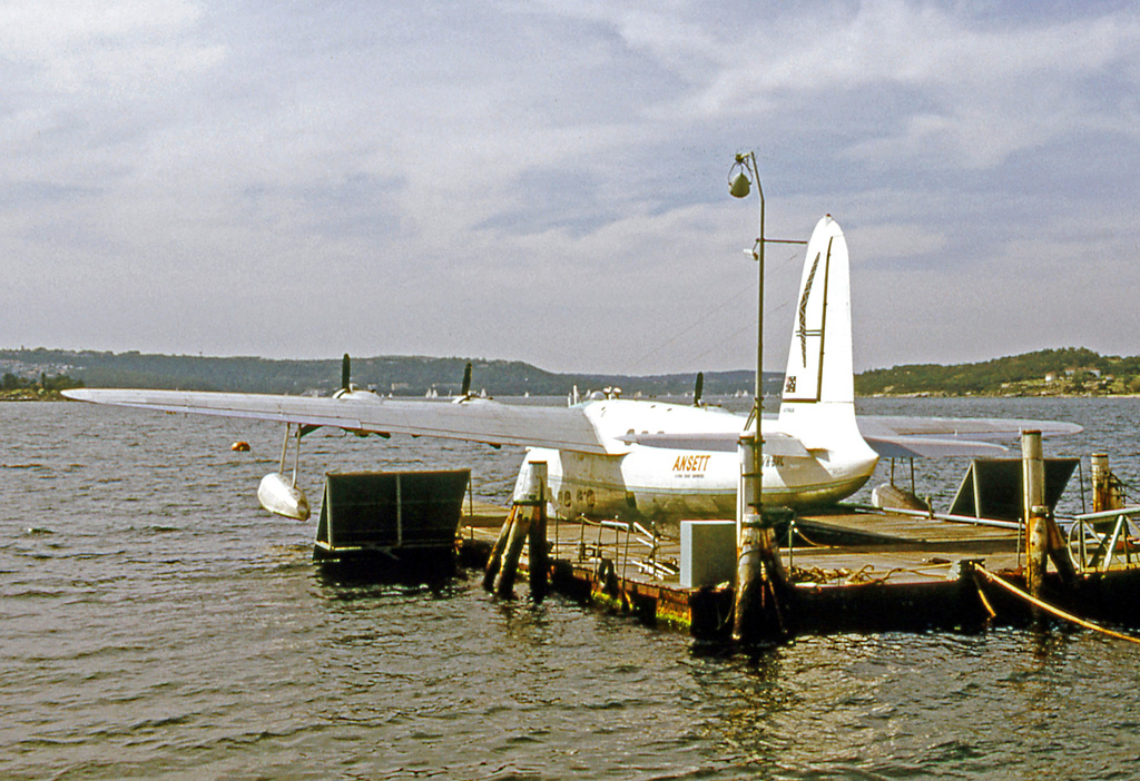 Short S.25 Sandringham VH-BRC of Ansett Flying Boat Services at the Rose Bay terminal in 1970